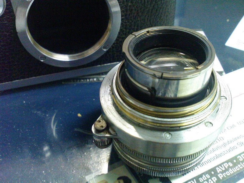 A regular Leica III lens.